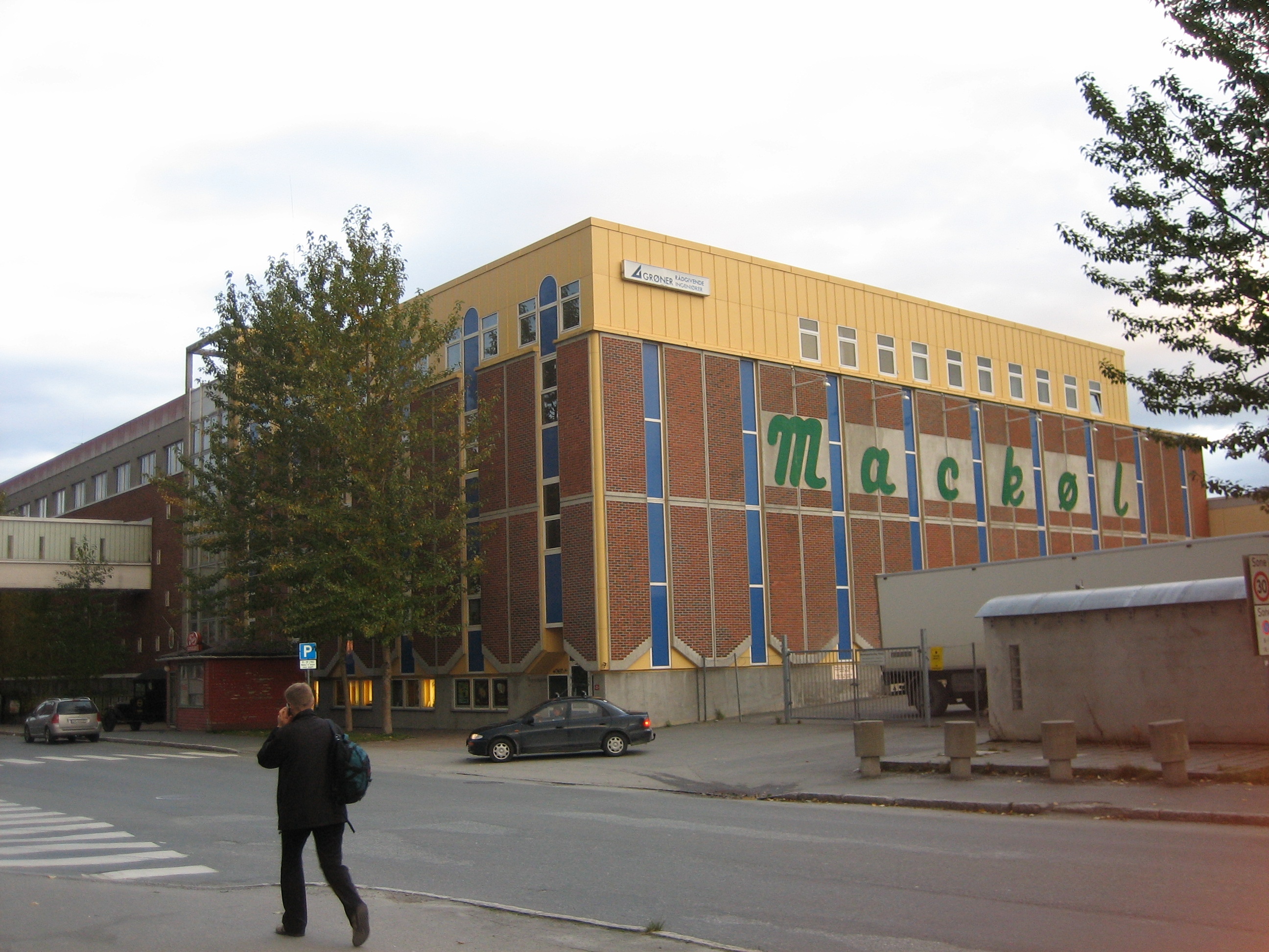 Eastern building of Mack Brewery in Tromsø, Norway